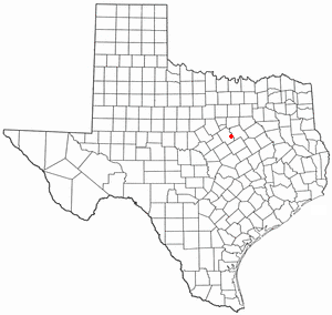 Location of Lake Whitney Ranch in Bosque County, Texas.